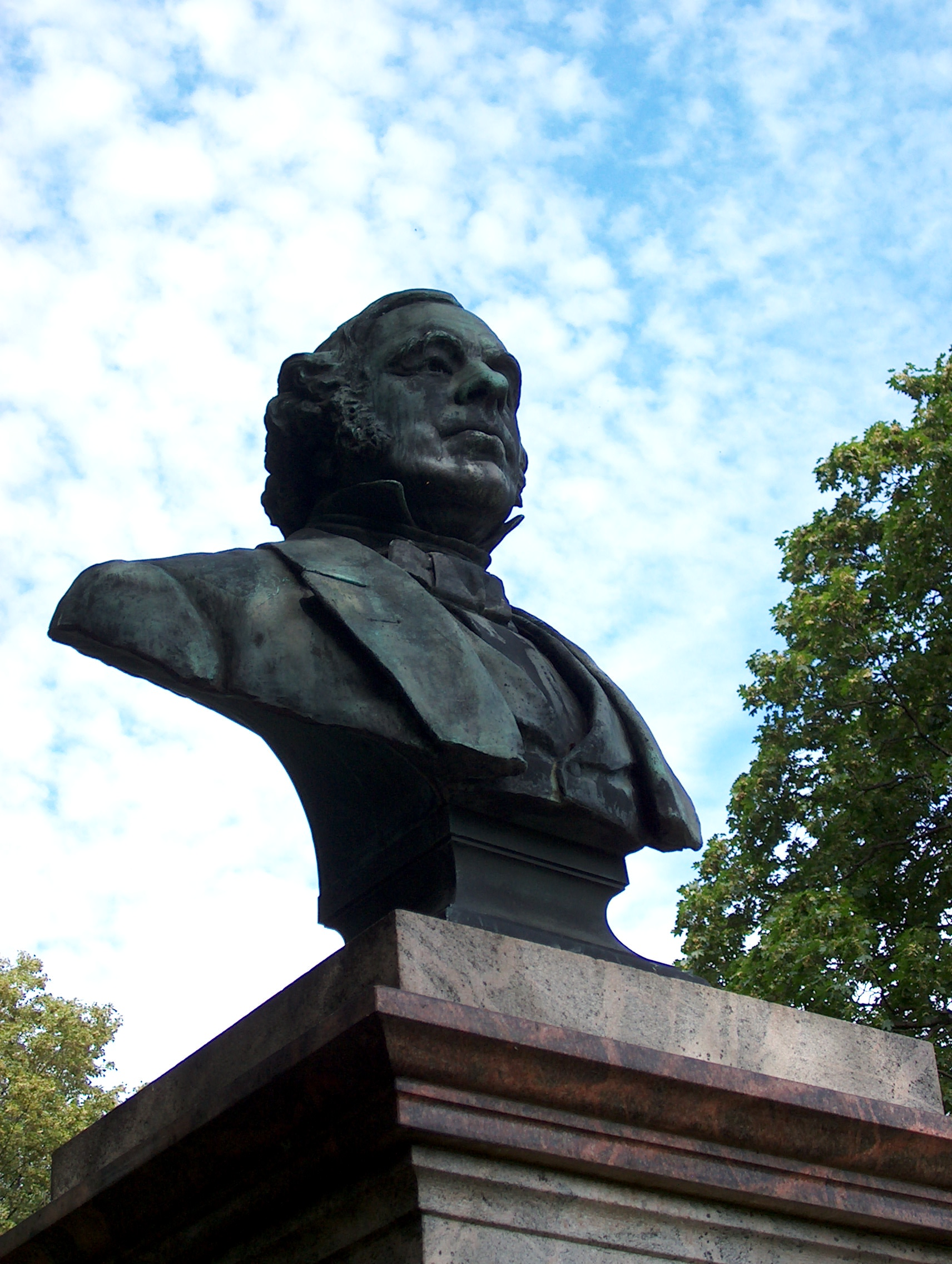 Bust of Henrik Borgström in Helsinki (Finland), by the sculptor Walter Runeberg